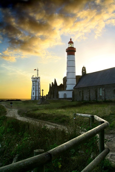 St Mathieu lighthouse in North Finistère, Brittany